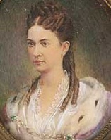 Detail from Portrait of a Woman in an Ermine Lined Cape, by the American artist, Virginia Reynolds. Miniature watercolor on ivory.